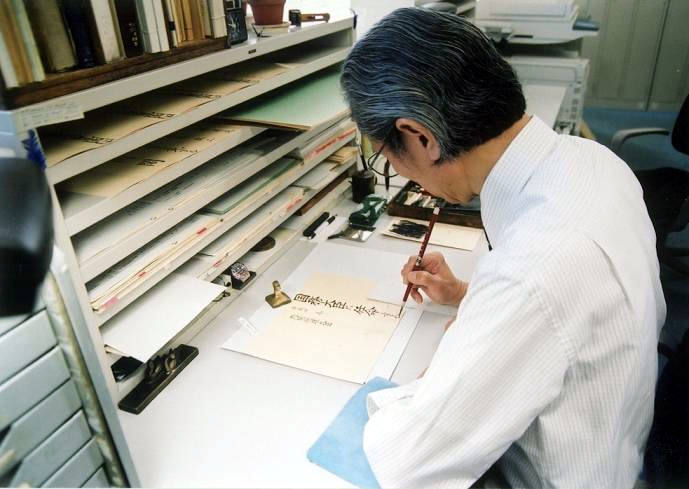 Jun'ichi Katō, Appointment Letter Officer of the Personnel Division, Minister's Secretariat, Cabinet Office, wrote the letter of appointment for the Minister.